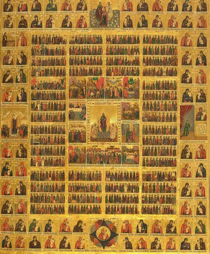 Icon of Chetyi-Minei (calendar of saints).In the very center is the Resurrection of Christ surrounded by scenes from Holy Week and the feasts of the Paschal cycle. Around them are twelve groupings of saints: one for each month of the calendar year. In the border are icons of the Theotokos (Mother of God), each of which has a feast day during the liturgical year.